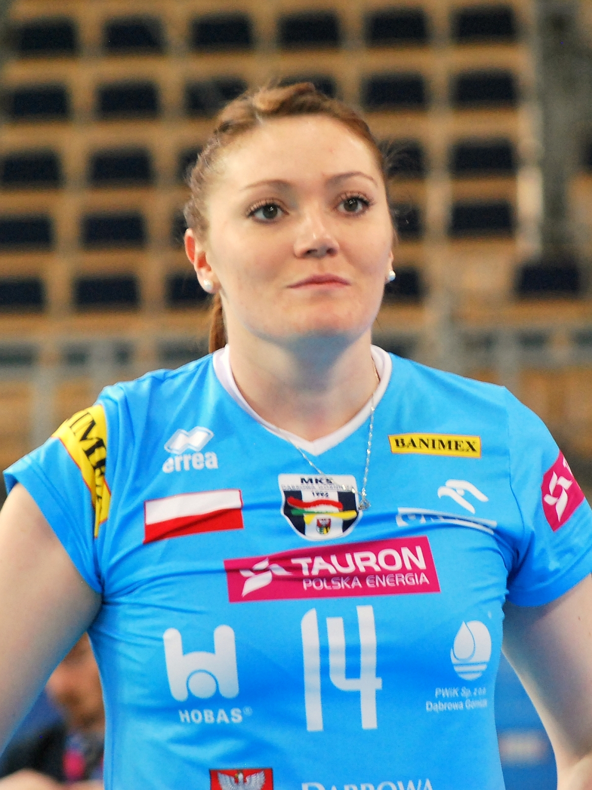 Tamara Gałucha, nee Kaliszuk, volleyball player from Poland